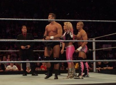 A picture of The Hart Trilogy at an ECW/Smackdown! taping in Cincinnati, Ohio that I took.